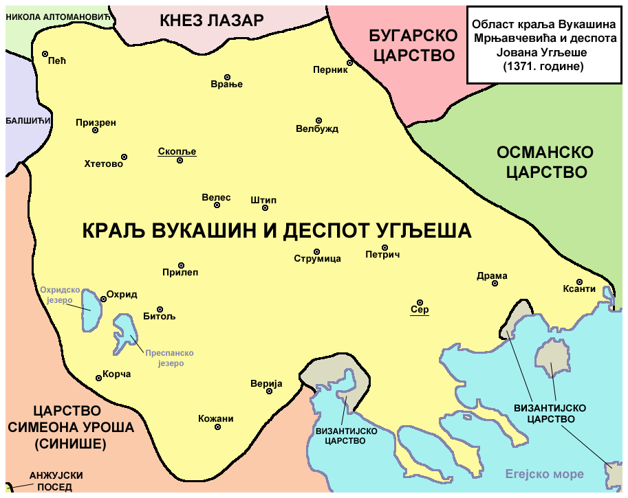 Domain of King Vukašin Mrnjavčević and Despot Jovan Uglješa (in 1371).